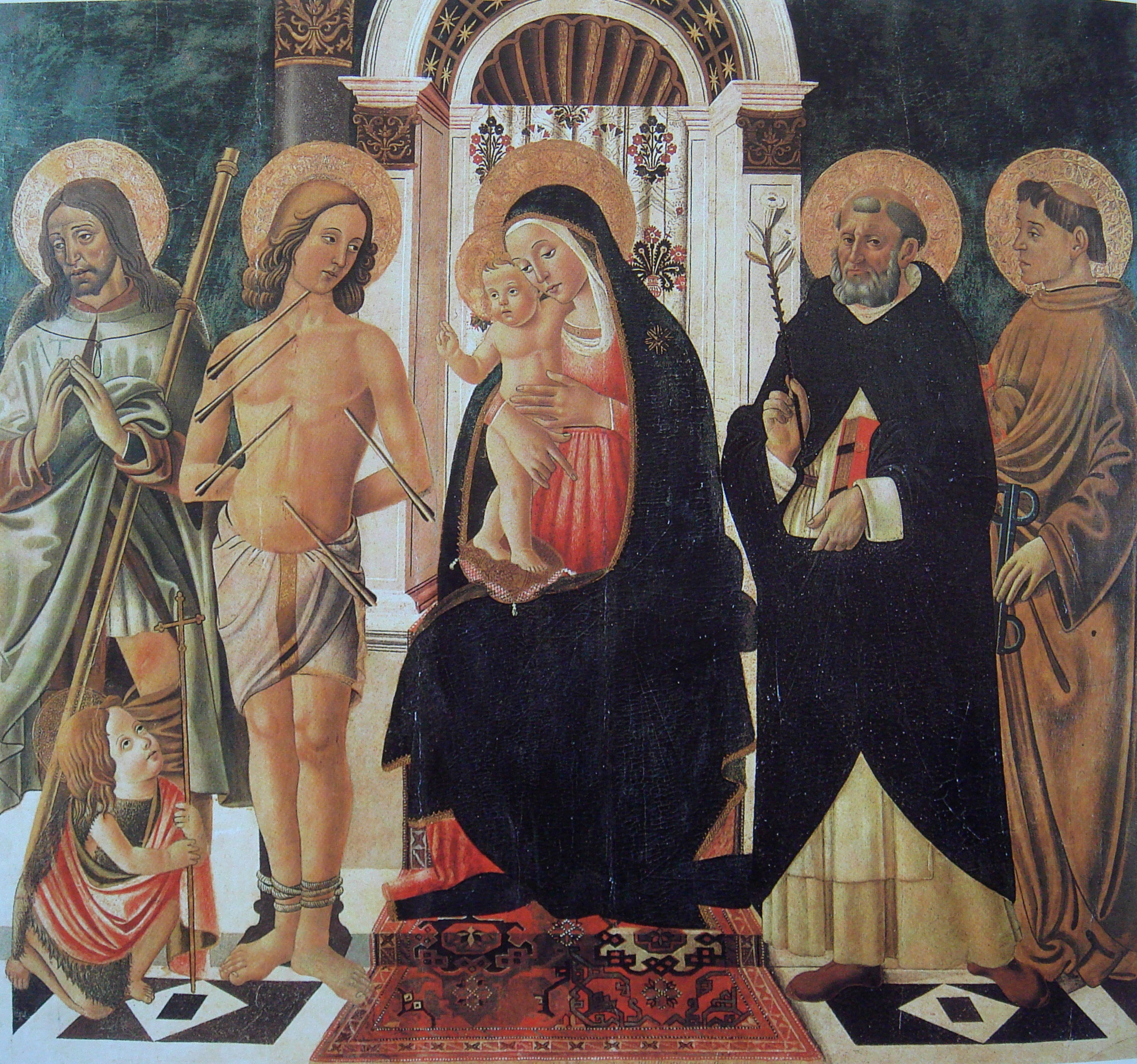 La Conversation Sacree